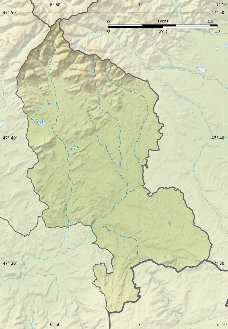 Blank physical map of the department of Territoire de Belfort, France, for geo-location purpose.